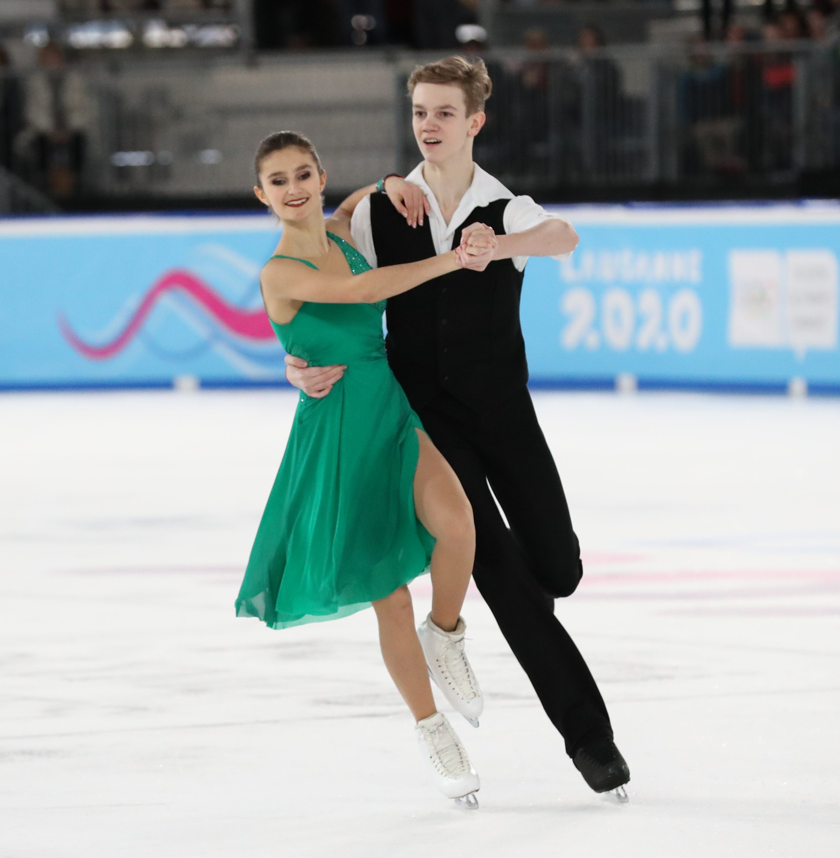 Ice Dance Rhythm Dance at the 2020 Winter Youth Olympics in Lausanne